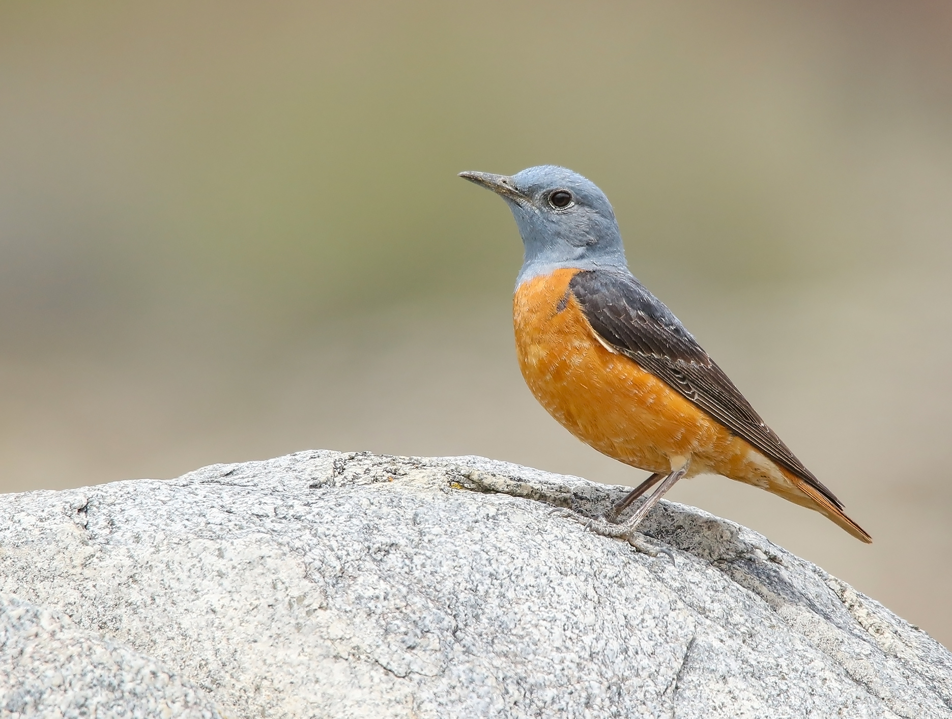 Rufous-tailed Rock-thrush (Monticola saxatilis) captured at Borit, Gojal, Gilgit-Baltistan, Pakistan with Canon EOS 7D Mark II